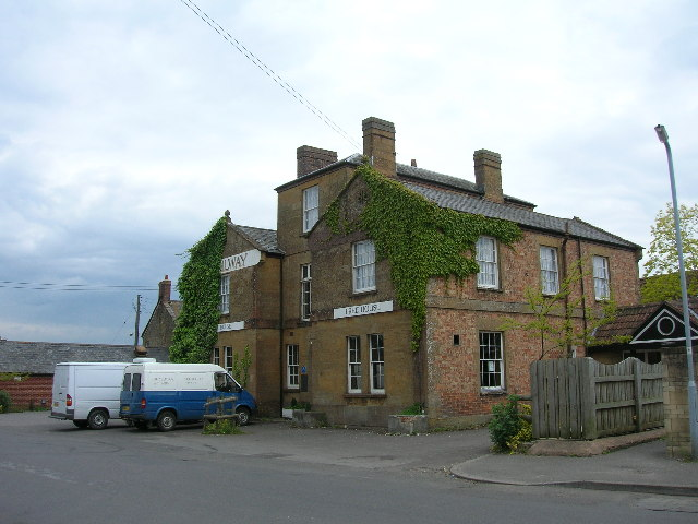 Martock. The former Railway Hotel, now a public house. Martock railway station and the Great Western Railway line from Langport to Yeovil once stood opposite the hotel.